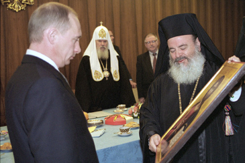 THE KREMLIN, MOSCOW. Head of the Greek Orthodox Church Archbishop Christodoulos of Athens and all Greece presented President Putin with an icon of Christ the Saviour.